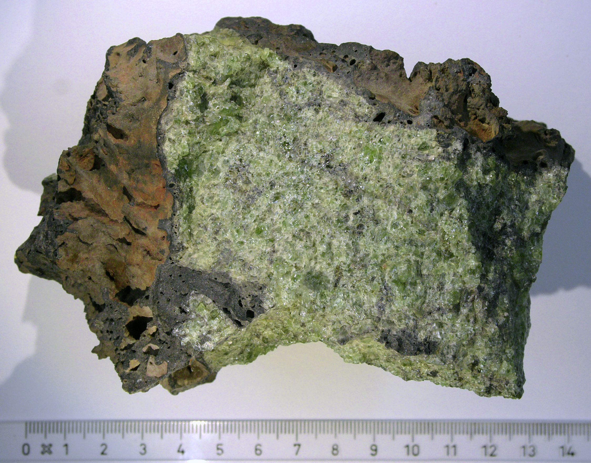 Olivin from Mount Erebus, Ross Island, Antarctica.